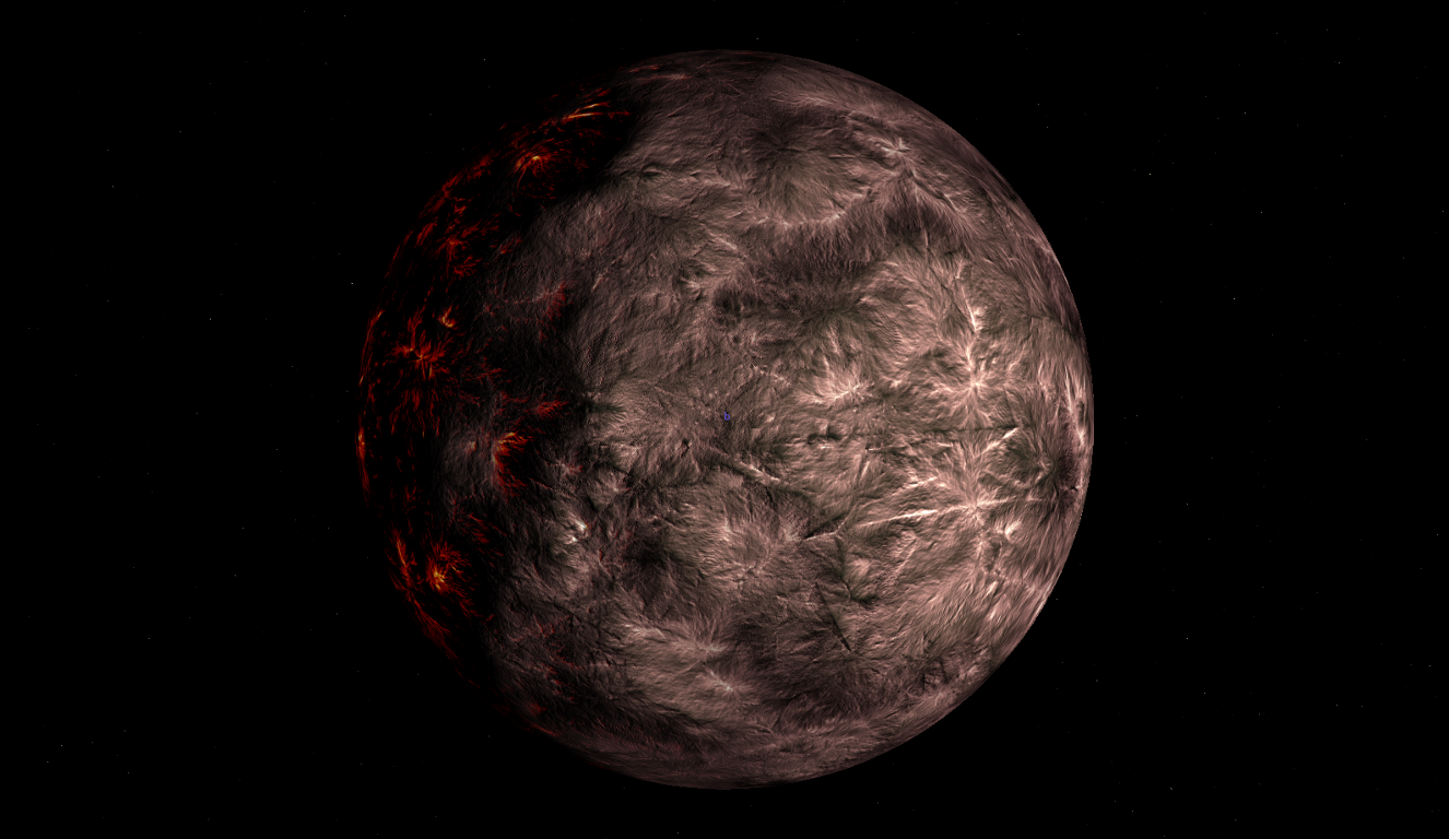 Artists Concept for the closest planet ( b ) to the star "61 Virginis"